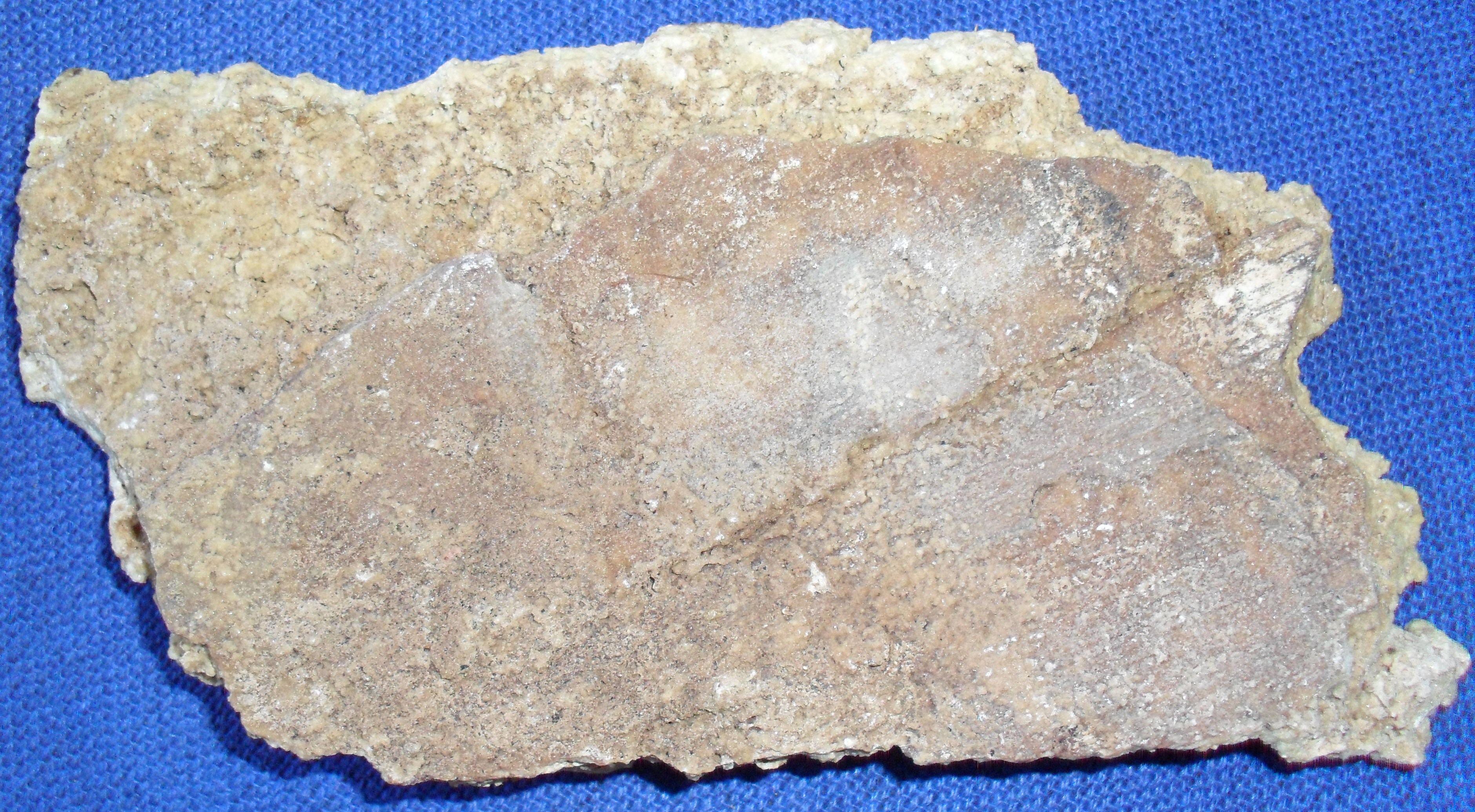 Little sample of dry et compact plate of tartar crystals (Potassium bitartrate) with common impureties (coming from red wine as "Pinot noir" during his maturation), called in french "tartre de vin" , "tartre des tonneaux", "tartre des barriques". Size : 13 cm X 5 cm with thickness around 1 cm. It's the side more tarnished and more brownish, formerly bonded to the wood of the barrel, with the remain of slightly curved of the wood. Before the cleaning of the empty barrel, the winegrower breaks the dry and solid layer of tartar. The greyish hue, the reddish or brownished tint are very few visible by this reflected light. Collection André Kloecklé, provenant du nettoyage annuel des grands fûts en bois de la maison Greiner-Schleret à Mittelwihr Haut-Rhin (68 Alsace). The opposite side is seen in File:Tartre vin rouge alsacien.jpg.